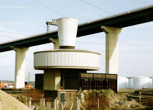 Dartford Tunnel Ventilation Shaft. The approach to the QE2 Bridge is in the background.